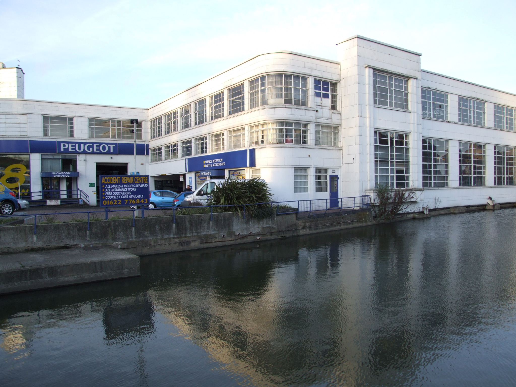 The River Len flows into the River Medway in a culvert at Maidstone in Kent by the Archbishops Palace. The millpond at Mill Street taken from the Bishops way bridge. - OpenStreetMap (Info)